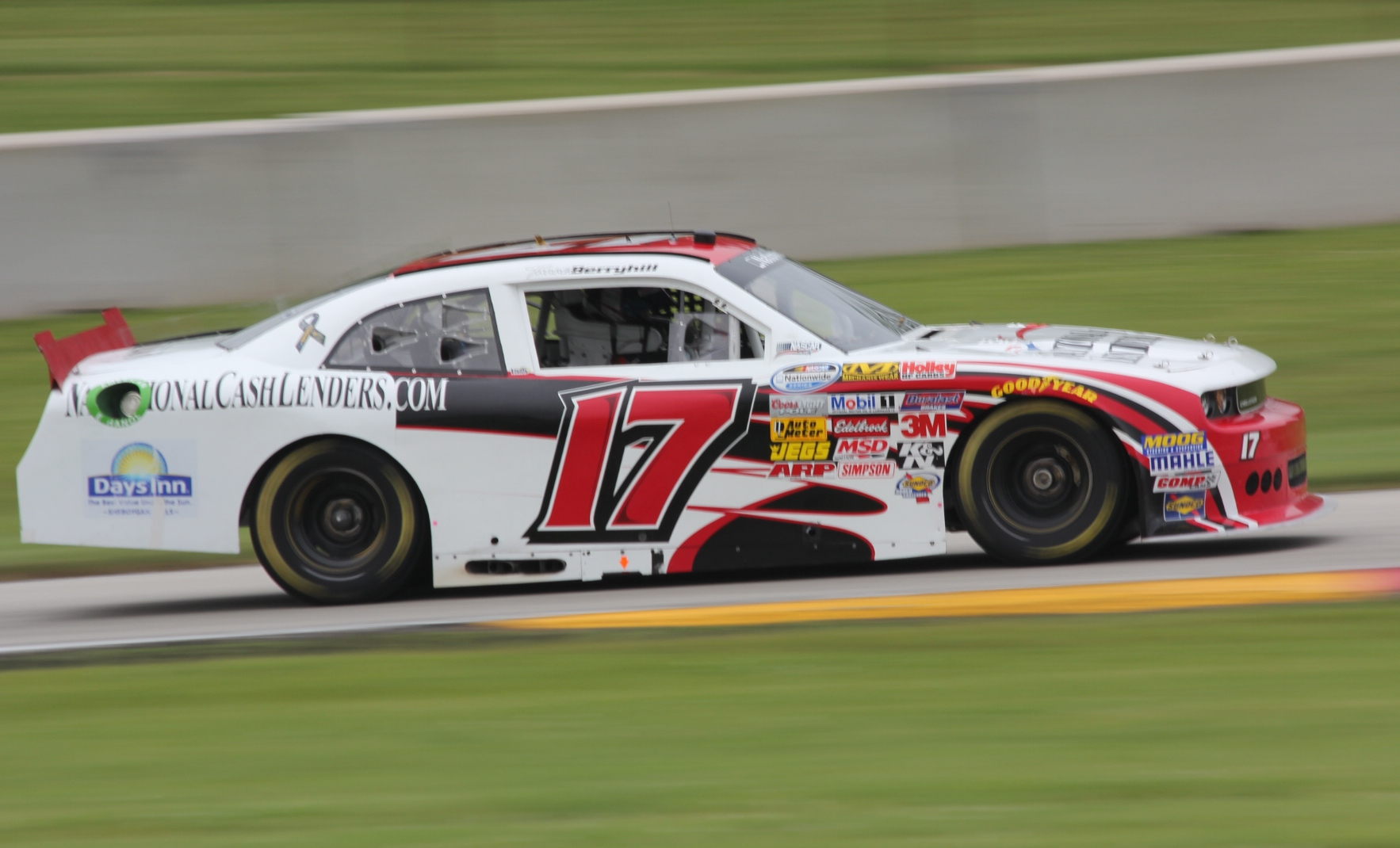 The passenger side of Tanner Berryhill Nationwide car during the 2014 Gardner Denver 200 at Road America. Taken racing in turn 13s.